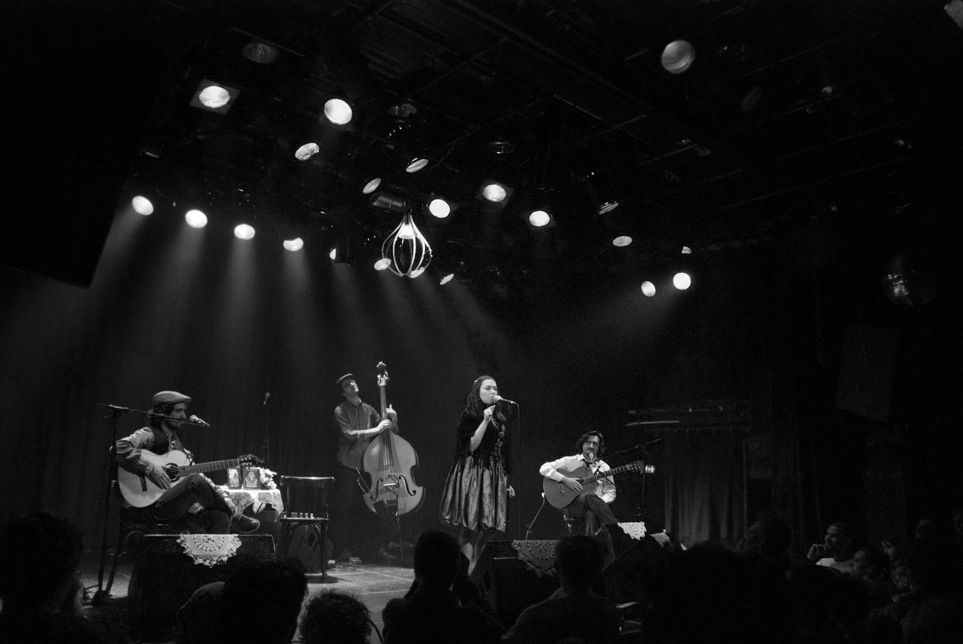 Portuguese quartet band Deolinda playing Melkweg, Amsterdam.